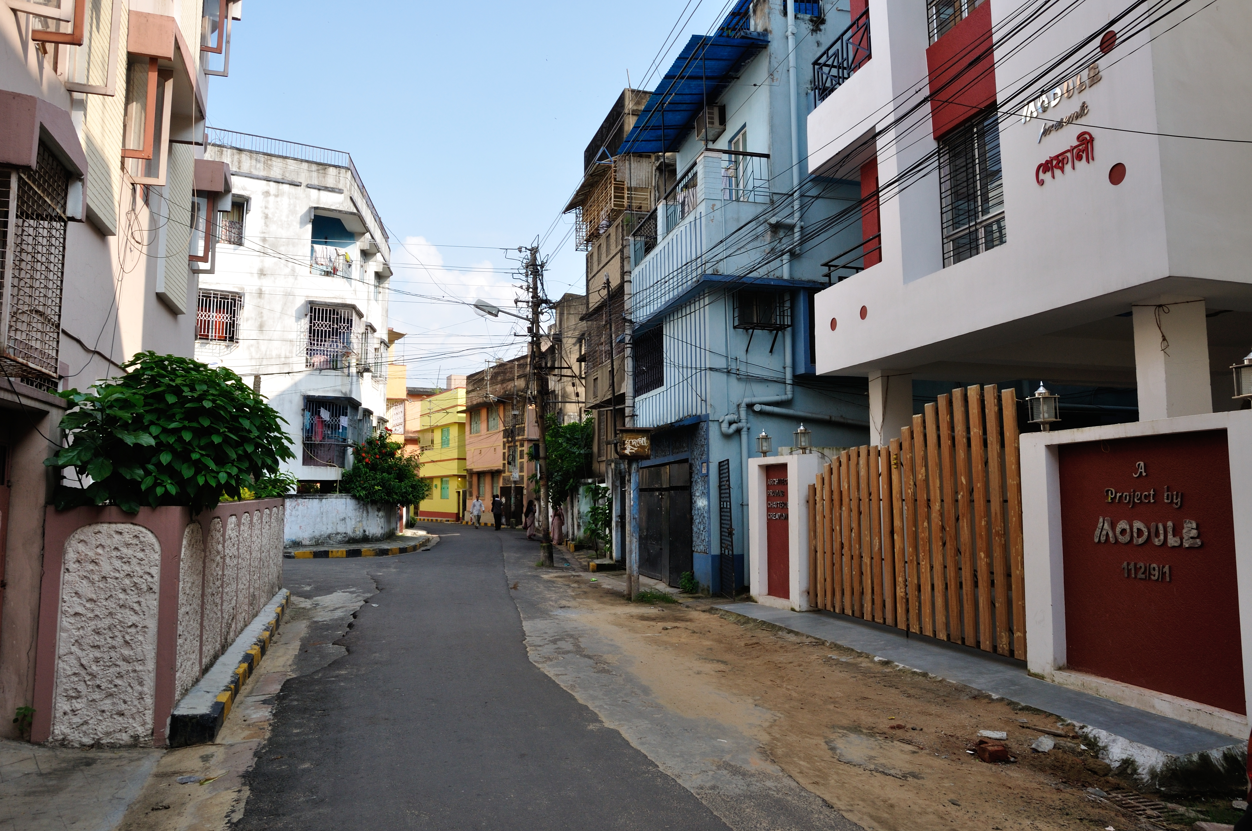 Photographed in Kolkata.